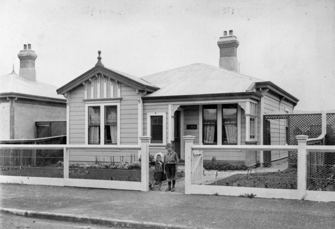 A house at 13 Patrick Street, Petone, New Zealand. The house was one of the first constructed under the Workers Dwelling Act of 1905.